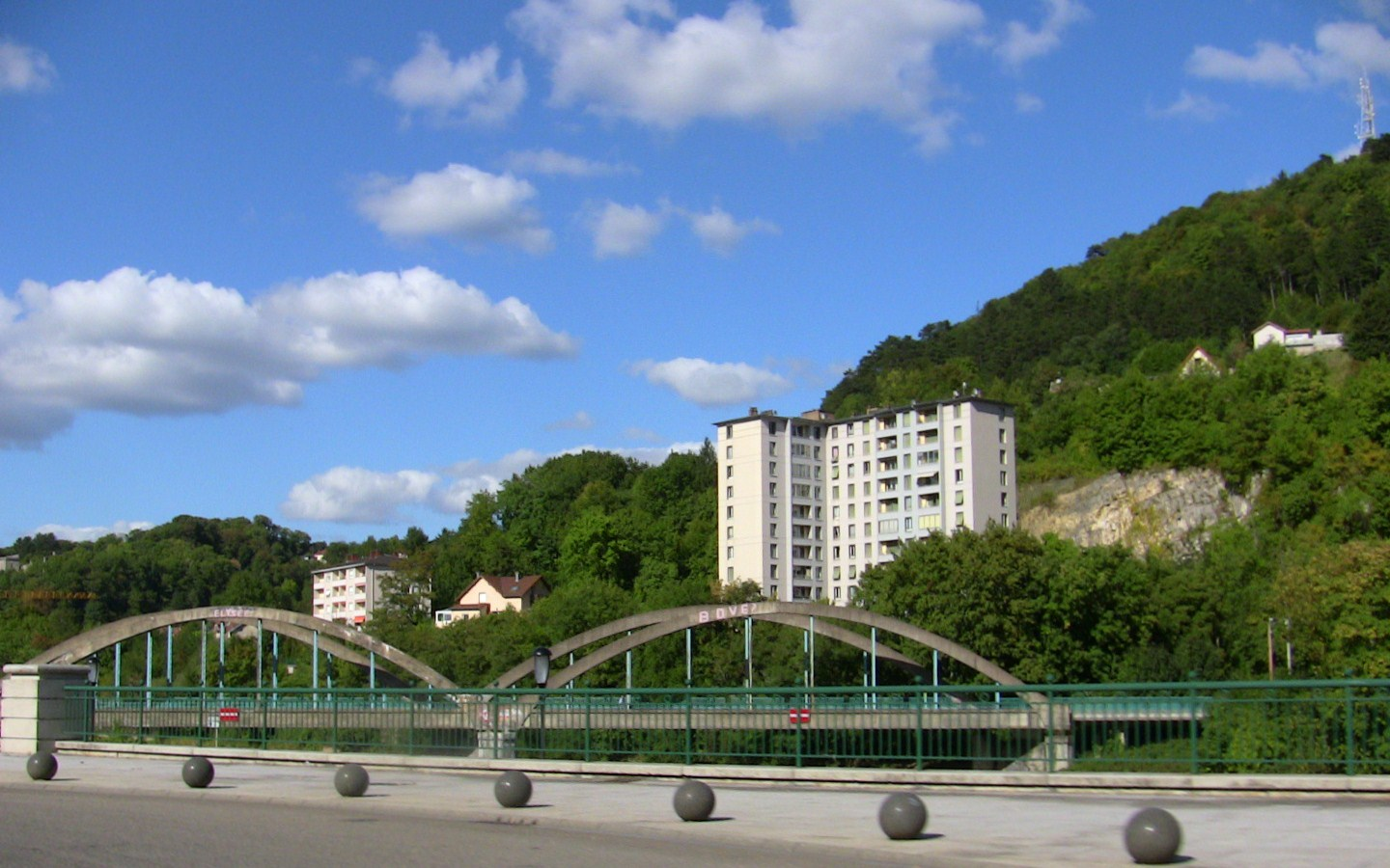 Rivotte, a little sector of the center of Besançon (Doubs, France)